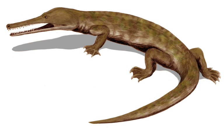 Champsosaurus natator, a Choristodera from the Late Cretaceous to Early Eocene of North America pencil drawing